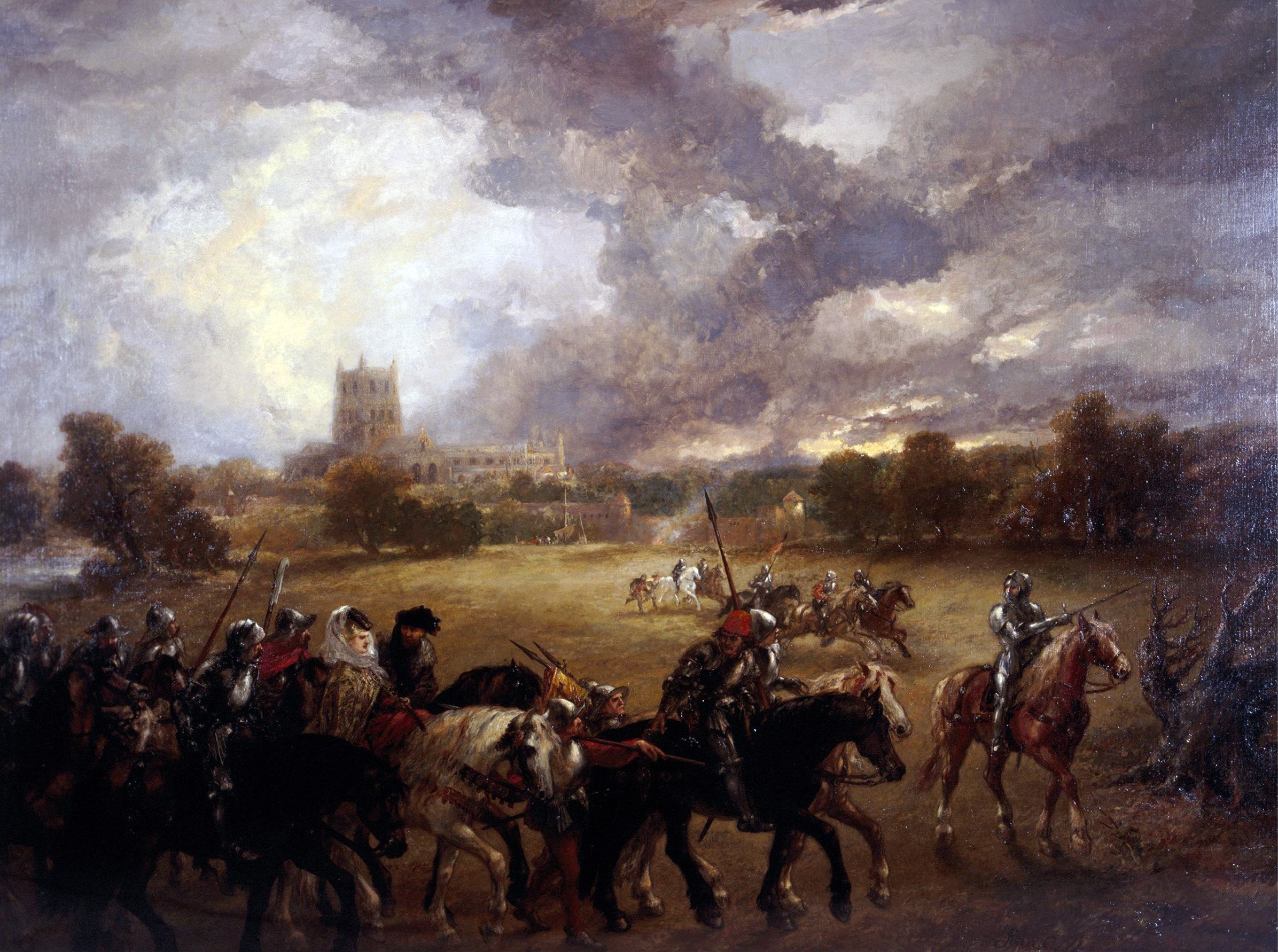 The queen, on a white palfrey, guarded by numerous men-at-arms, is riding across a level meadow; the walls and abbey of Tewkesbury seen in the distance; cloudy sky. (From p. 26 of a Royal Academy of Arts exhibition catalogue published by Wm. Clowes and Sons in 1901.)